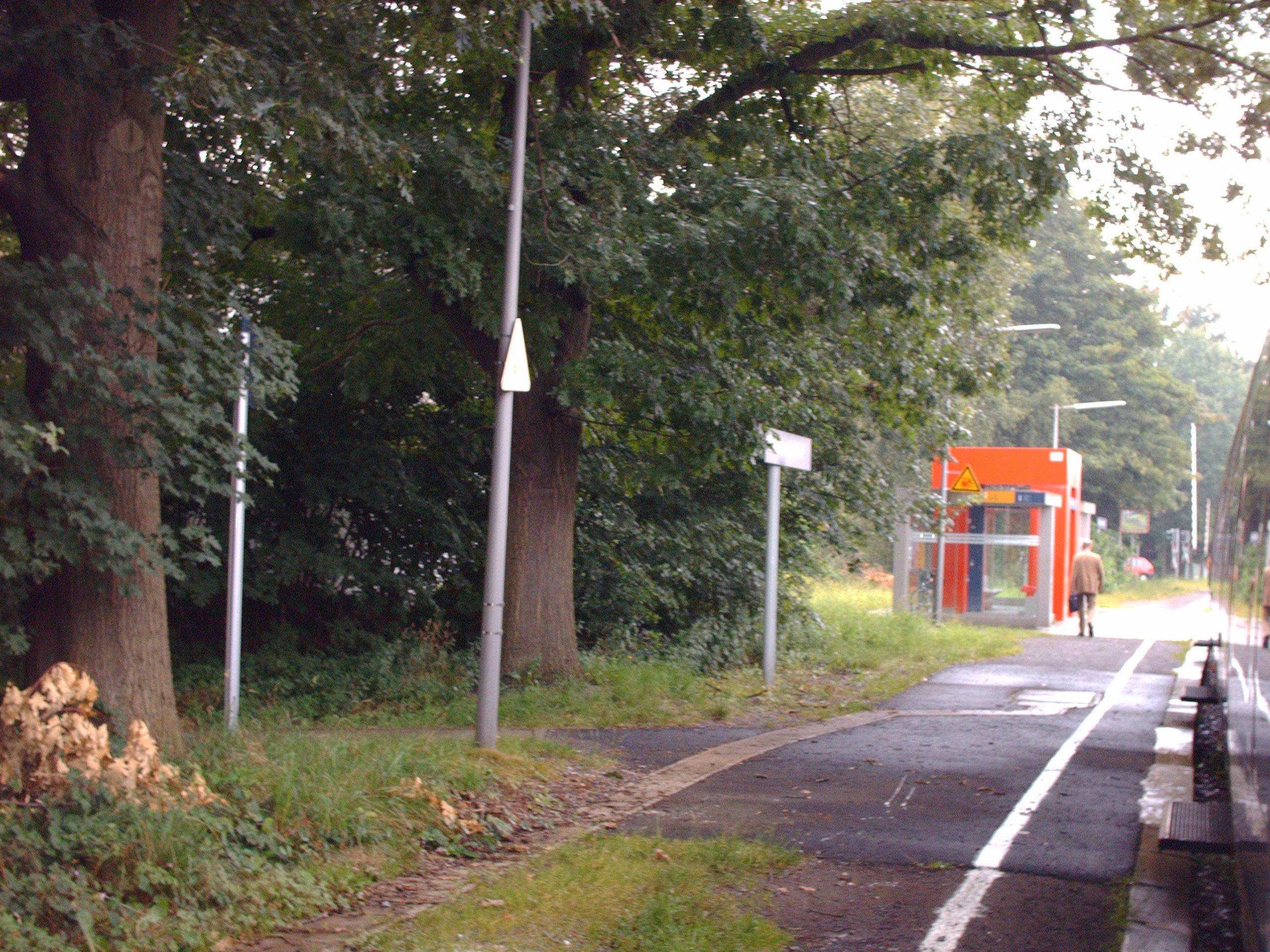 Brackwede Süd station, Bielefeld, Germany check usage This is a photograph of an architectural monument.